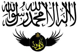 The flag was used by the Syrian rebel group known as Liwa Dawud